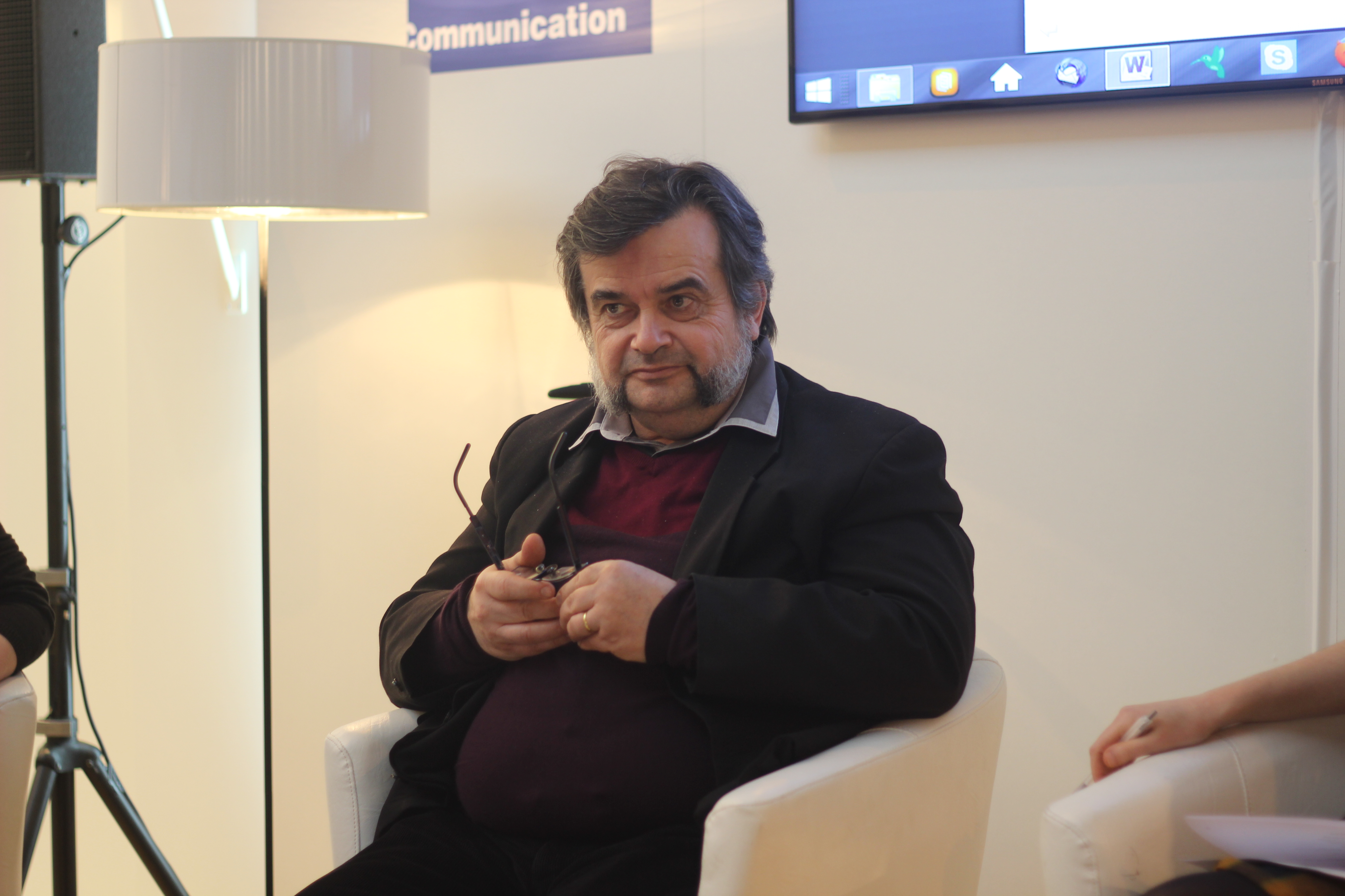 2015 Paris Book Fair, from 20 to 23 March 2015, Paris expo Porte de Versailles.